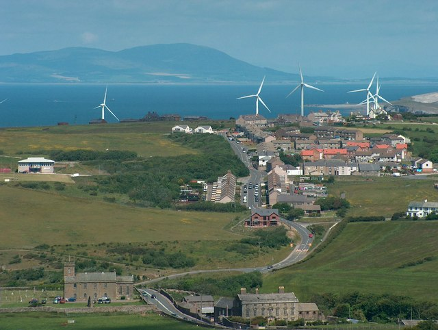 Wind Turbines Solway Firth, near to Parton, Cumbria, Great Britain. View is of St Bridget's Church (Moresby Parish church) on the left and Moresby Hall on the right foreground, Lowca in mid picture, coast of Southern Scotland at top of frame.